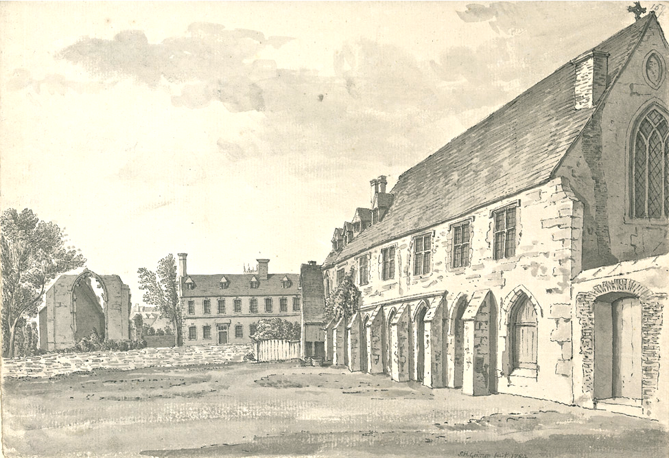 The ruins of St Swithins Church and the Greyfriars, Lincoln